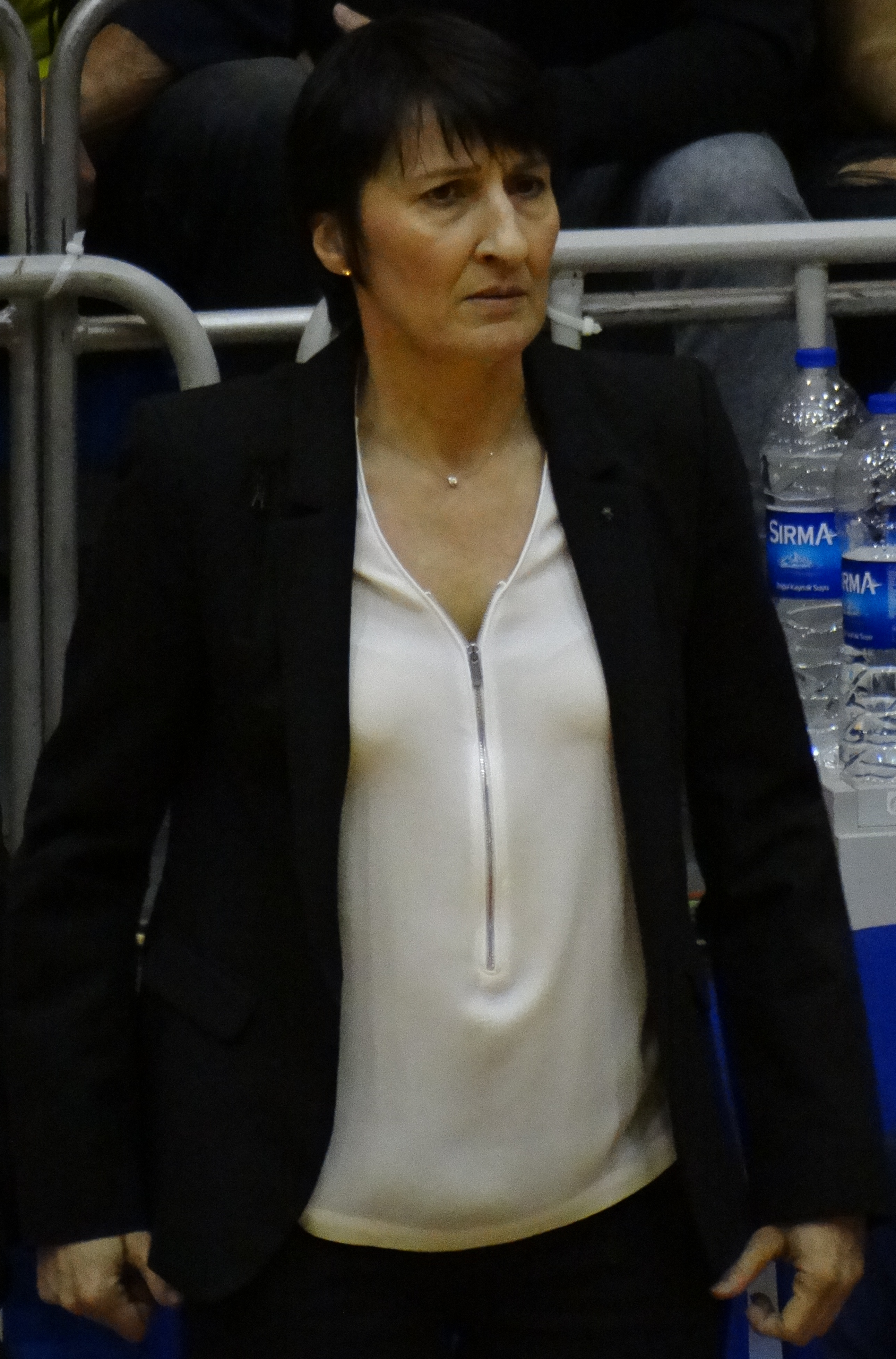 Valérie Garnier Fenerbahçe Women's Basketball vs Galatasaray Women's Basketball TWBL 20180408